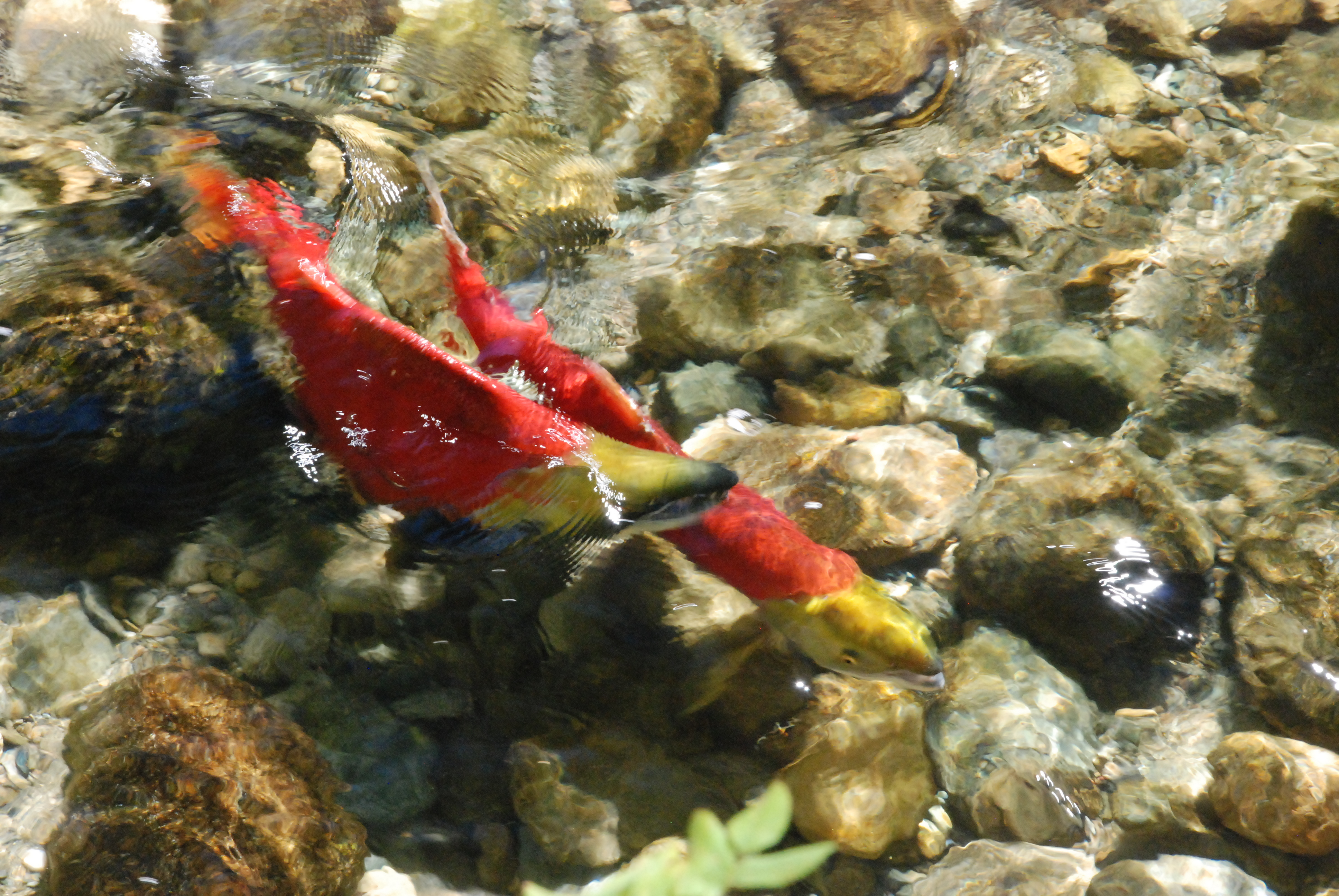 A male and female sockeye salmon spawning in the Adams River of British Columbia Canada in October, 2014. This is an example of the physical and colour changes the fish undergo while spawning. They turn from a silver grey to bright red bodies with yellow green heads. The mouth area turns towards black. In an example of sexual dimorphism, the males grow a large hooked beak and hump in the middle of their back. The females outward appearance changes little aside from the colouration.